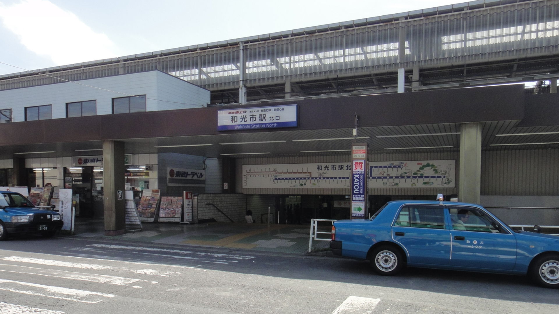 North entrance of Wakoshi Station on the Tobu Tojo Line in Saitama Prefecture, Japan